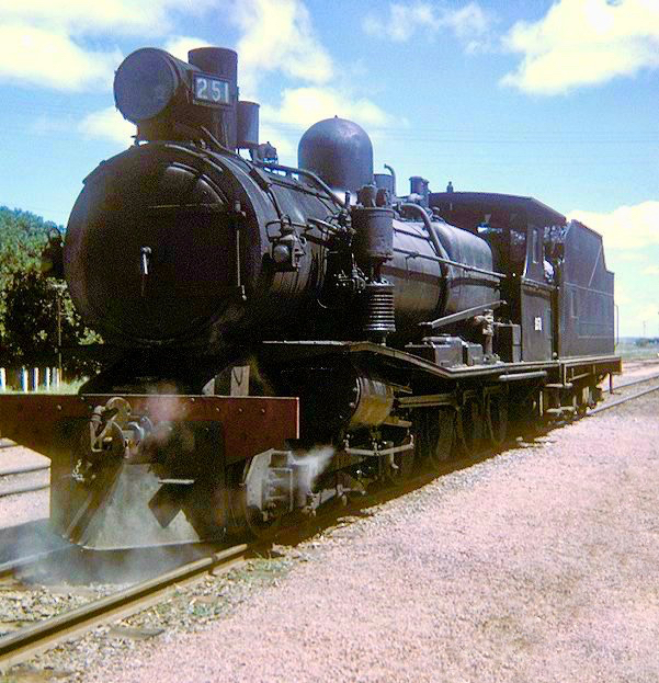 At Jamestown (South Australia) T251 has just taken off a down train to Port Pirie to now return light engine to Peterborough. October 1967.